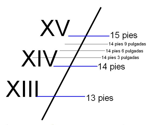 Draft scale in foot (spanish)